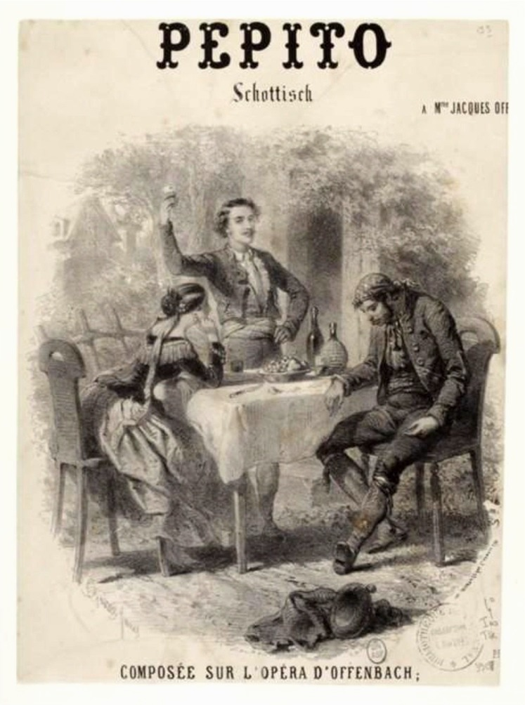 Pépito, schottisch from the eponymous opéra-comique by Jacques Offenbach, title page with engraving